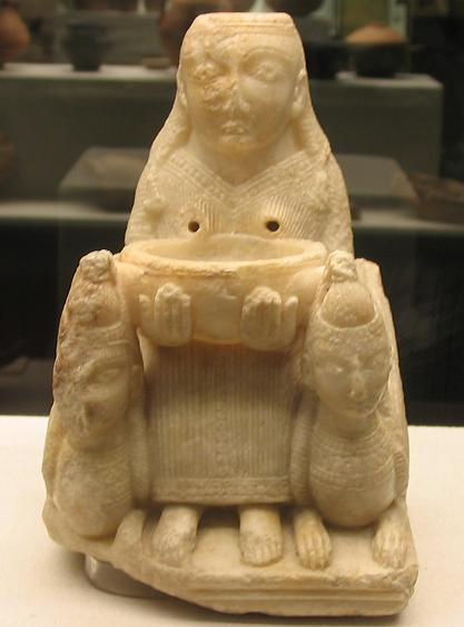 Phoenician figure representing an ancient Mideastern deity, probably the goddess Astarte.